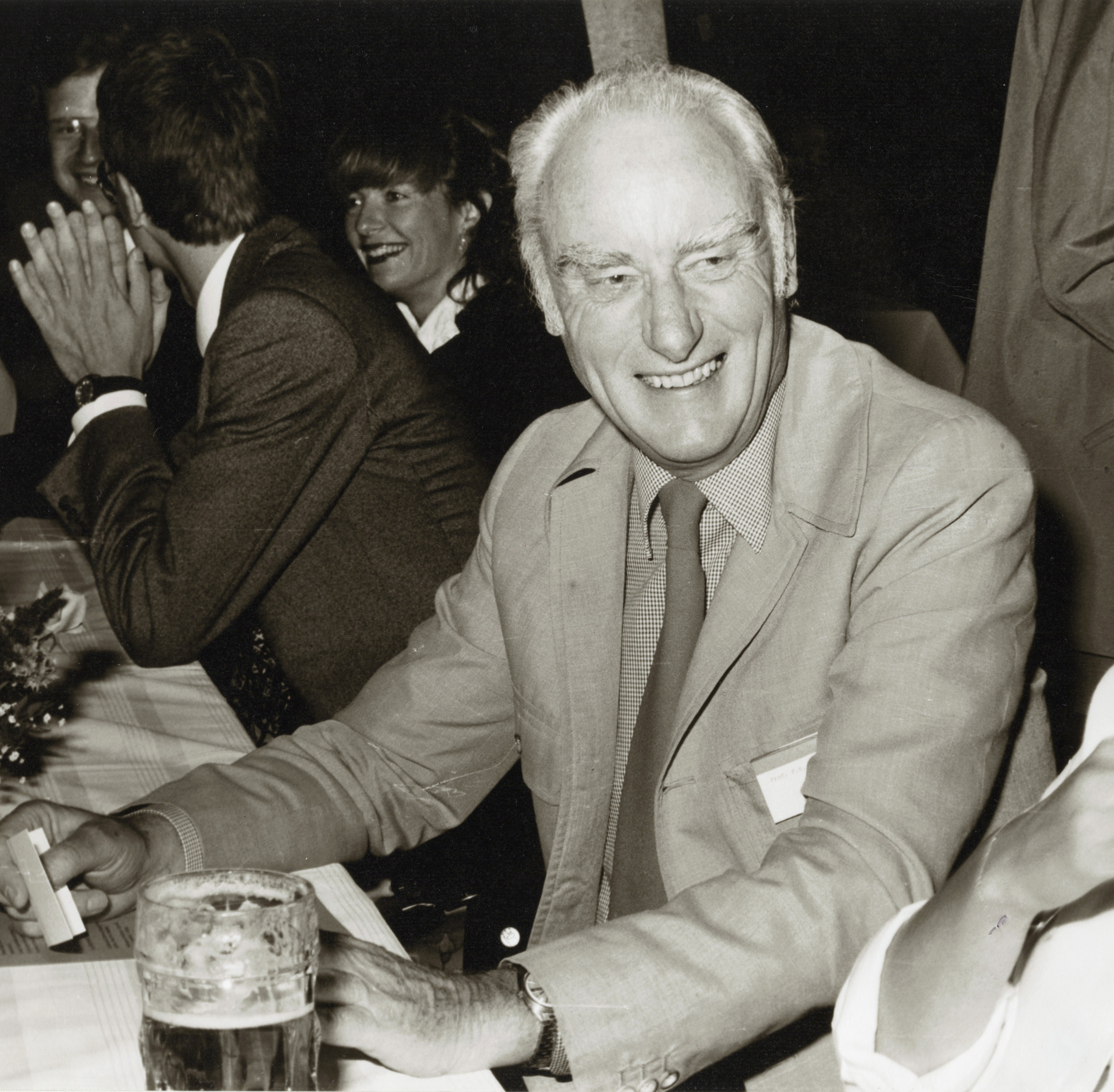 Photograph of Francis Crick at a dinner at the Nobel Prize Winners Conference in Lindau, Germany